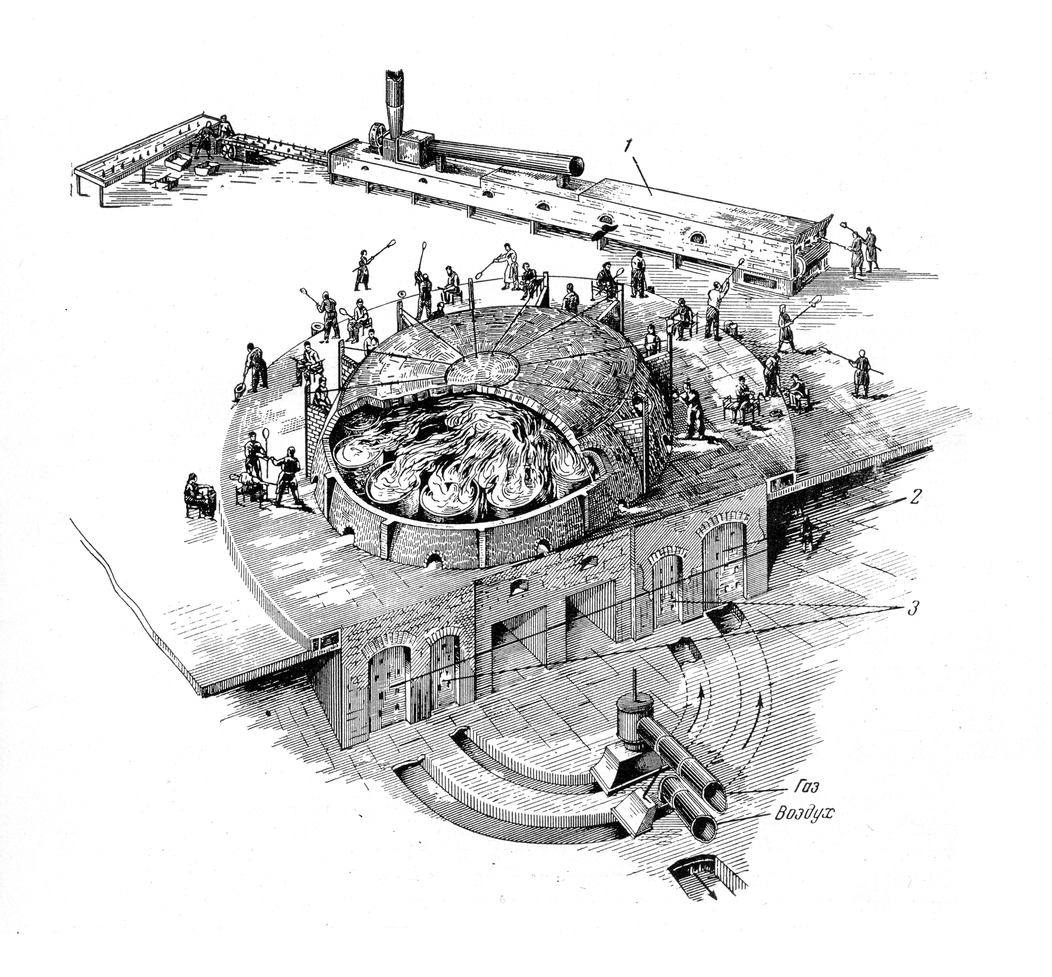 Potter's glass furnace